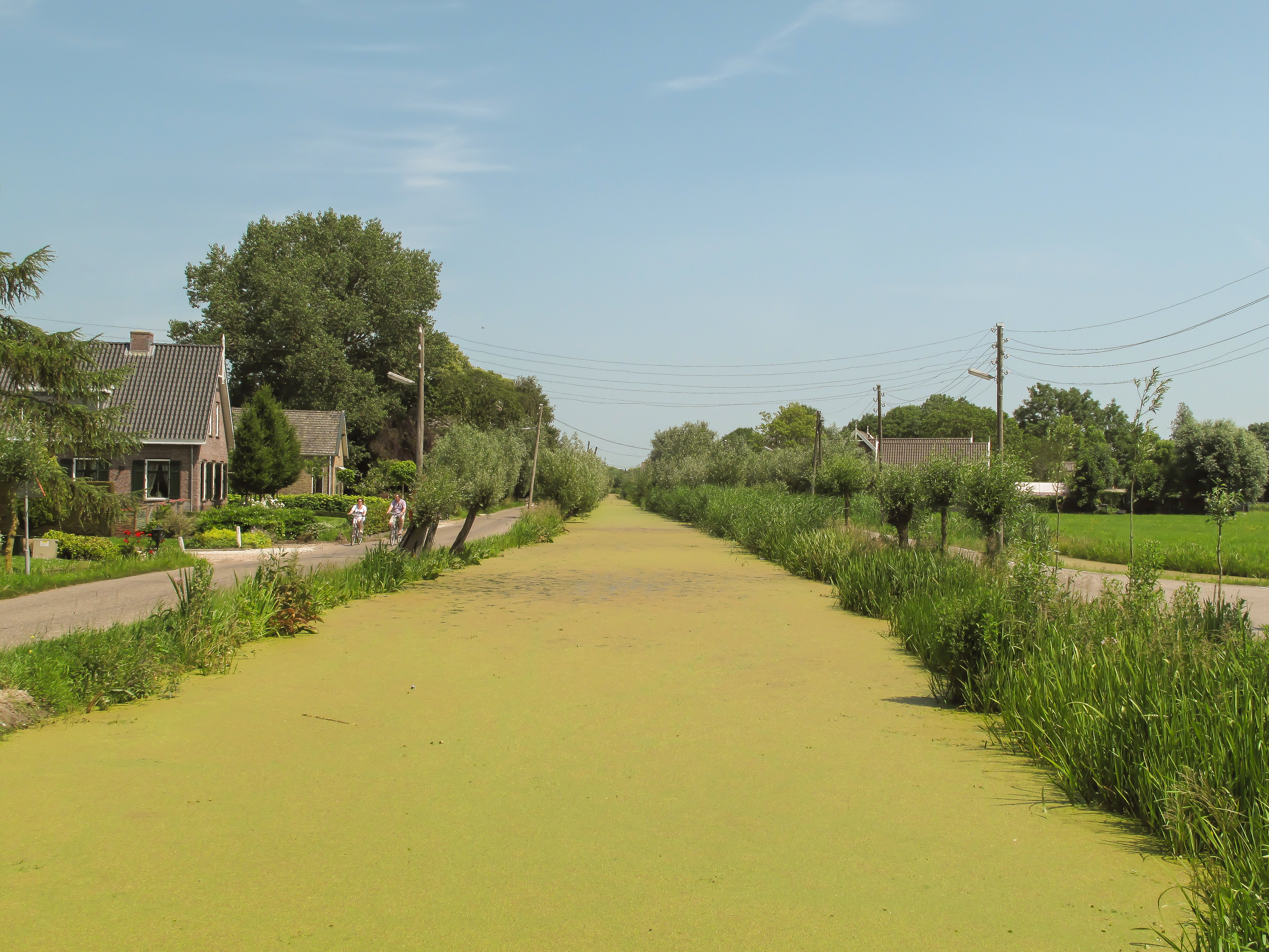 Benedenkerk, canal in the polder